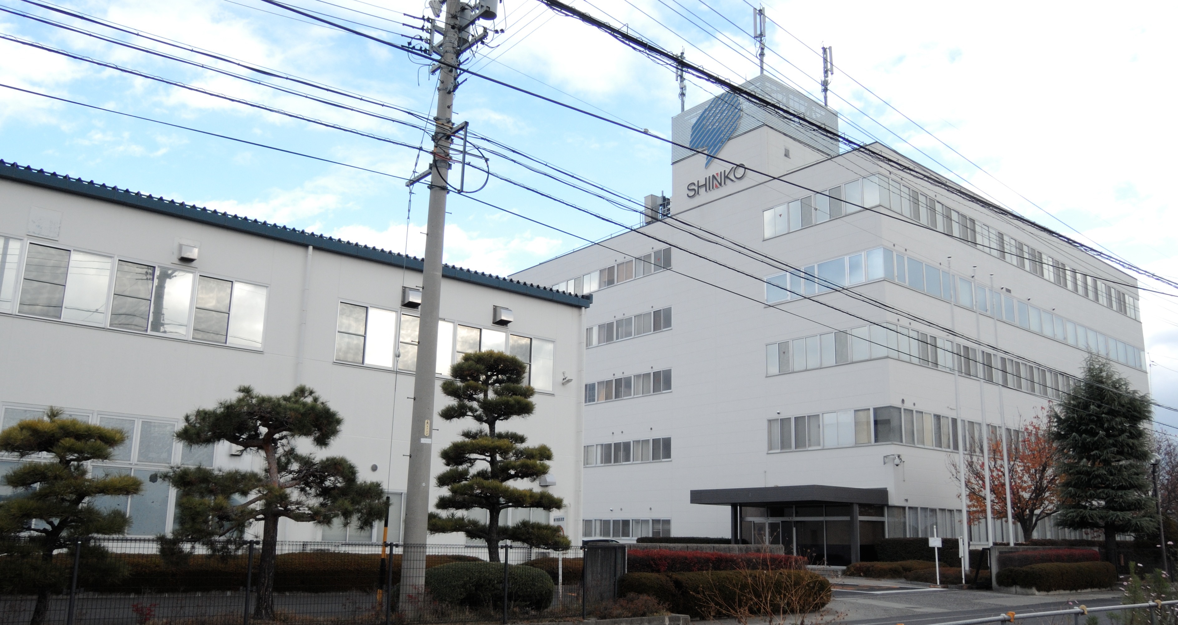 Headquarters of Shinko Electric Industries Co., Ltd、Nagano prefecture,Japan